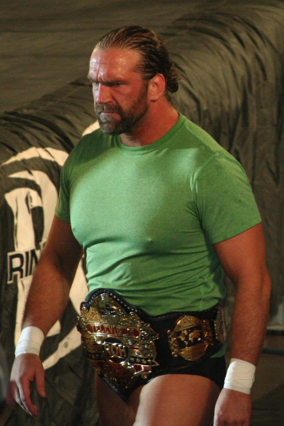 Silas Young (left) as the ROH World Television Champion, accompanied by the Beer City Bruiser, at the Ring of Honor show Honor Reigns Supreme in North Carolina in February 2018.